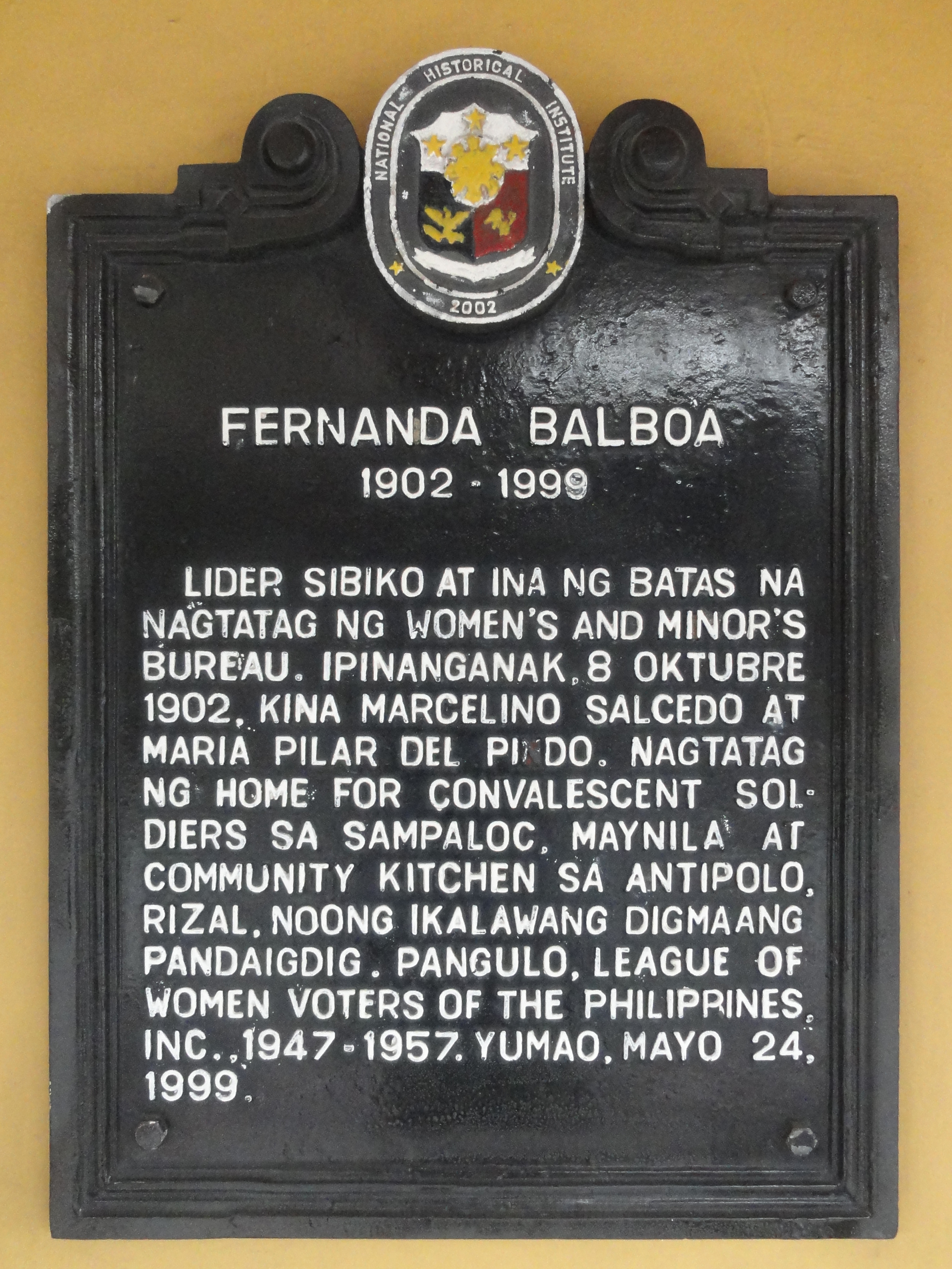 Fernanda Balboa 1902 - 1999 marker